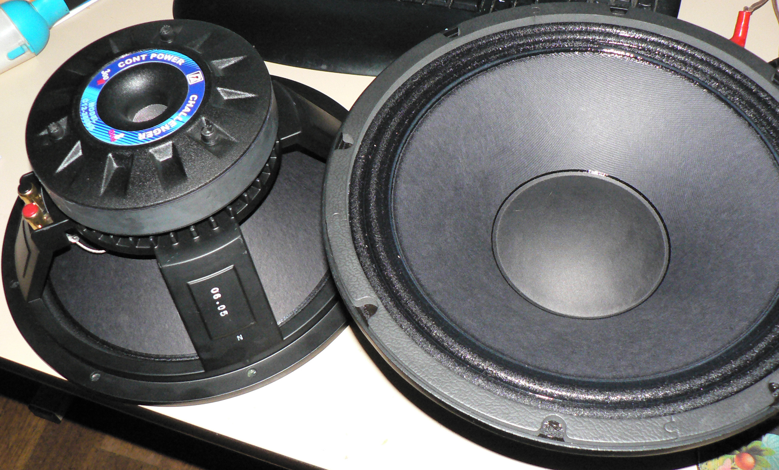 P-Audio Challenger 12in Woofers, showing cast frame, and cone